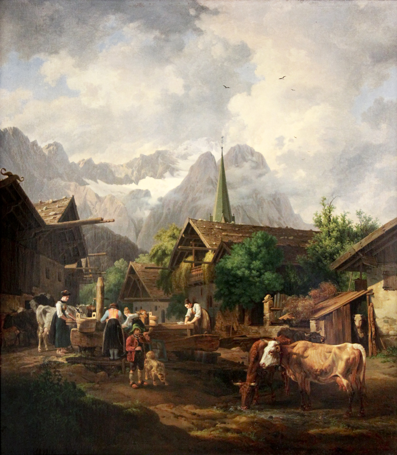 Partenkirchen, painting by Peter von Hess from 1819 in Hermitage collection, Saint Petersburg. The summits are situated west of the Zugspitze.